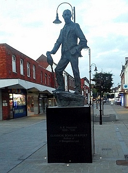 Refurbished statue of the poet A. E. Housman in Bromsgrove's main street, Sept 2015